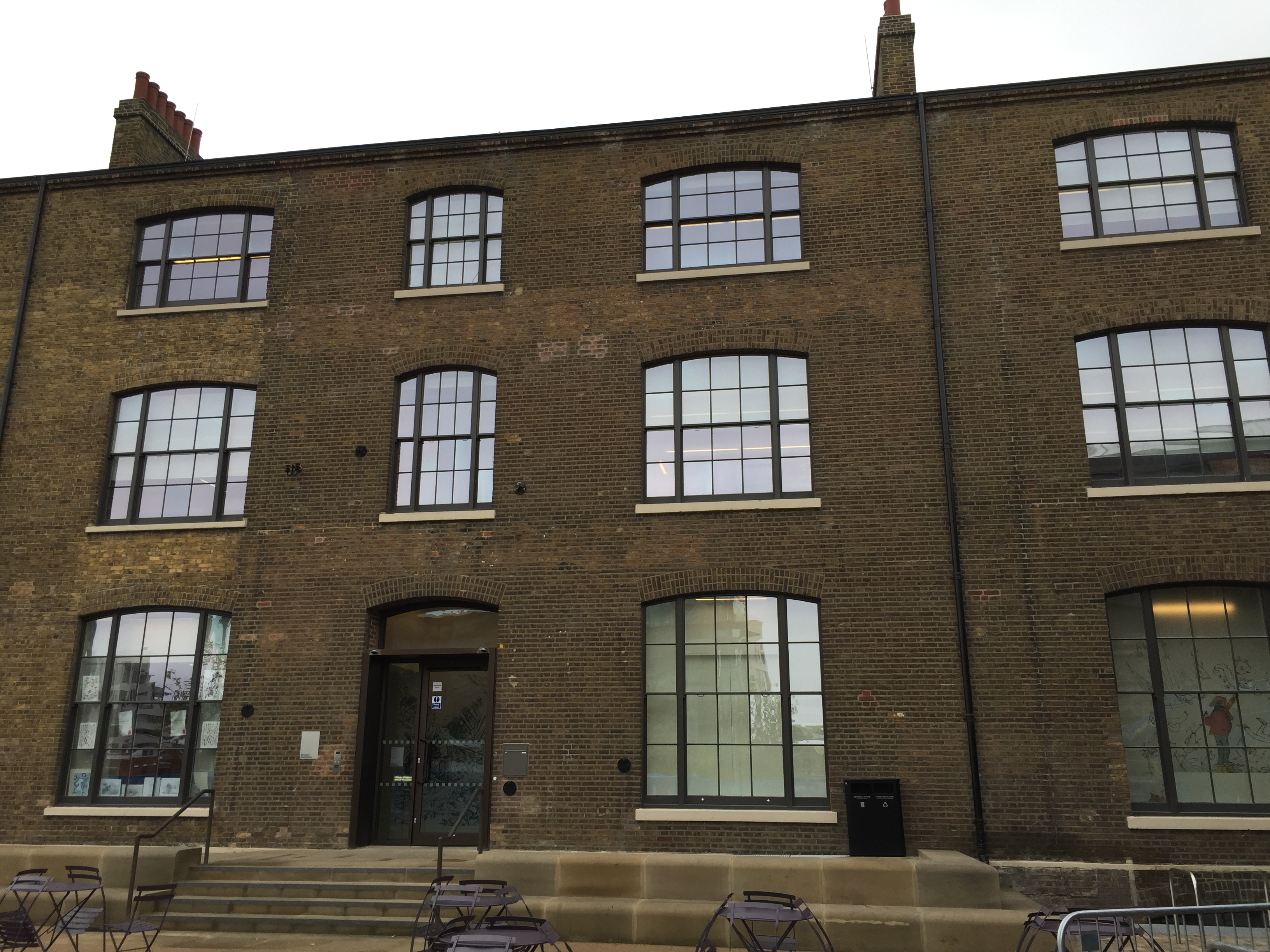 House of Illustration, 2 Granary Square, London